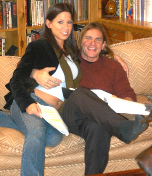 Haley Paige, Evan Stone On Set With Da Vinci Load From Hustler Video.